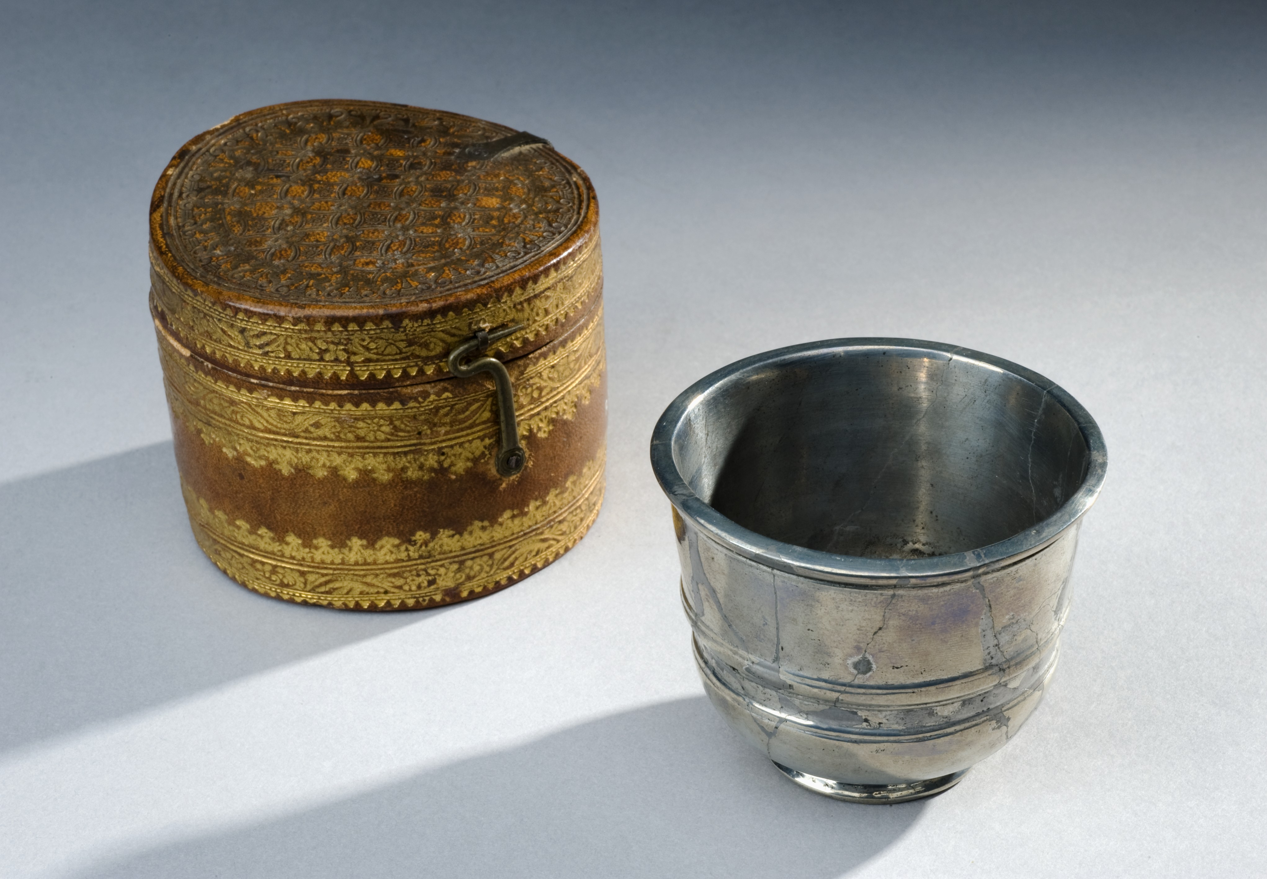 Cups made from antimony, a toxic, metallic element, became popular in the 1600s as a way to induce sweating and vomiting and so purge the body of excess humours that were believed to cause illness and disease. Wine was allowed to stand in the cup for 24 hours, by which time a small amount of the metal had dissolved. It has been suggested that the cups were introduced in order to get around the law at a time when the sale and use of antimony preparations was strictly forbidden. Three tablespoons of antimony could cause the desired effects, but it would have been a distinctly unpleasant experience. maker: Unknown maker Place made: Europe Wellcome Images Keywords: antimony cup